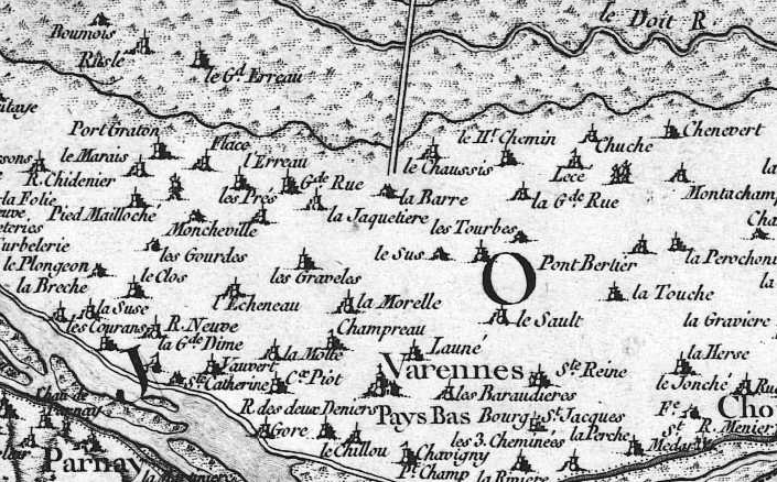 Map of a french village (Varennes-sur-Loire) by Cassini (XVIII - XIXth centuries)